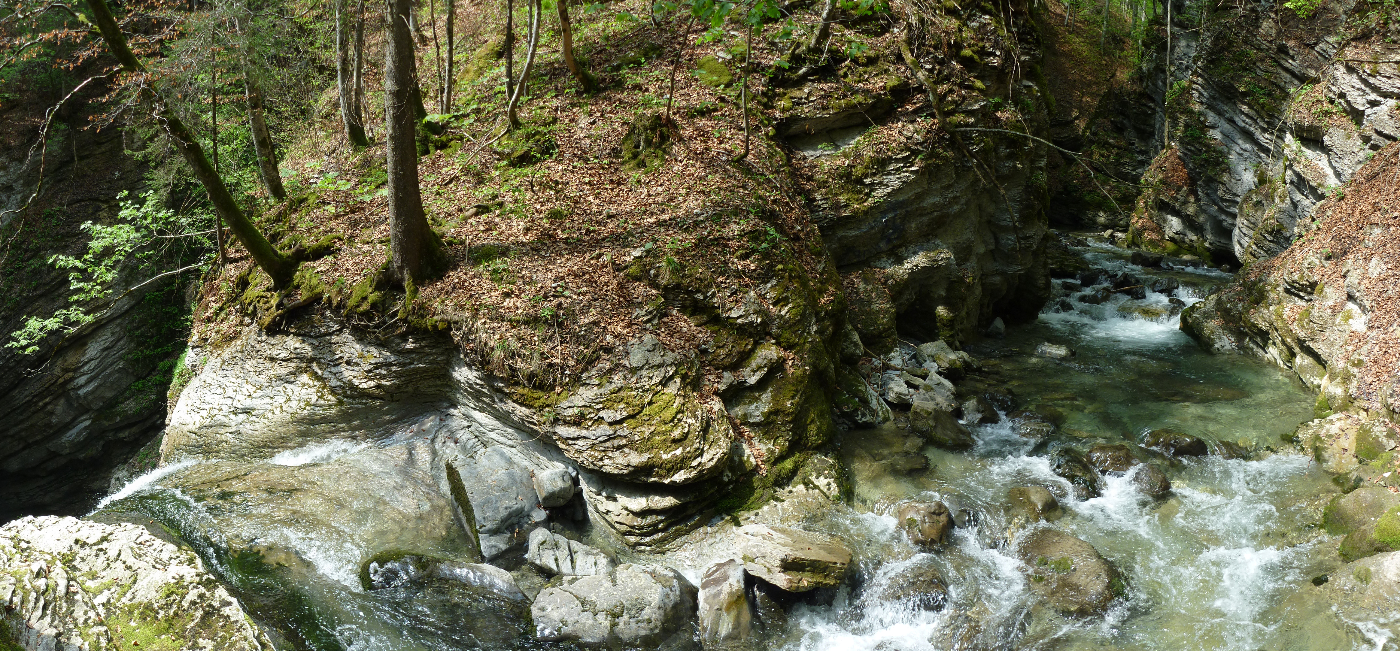 The Säntisthur near Unterwasser, canton of St. Gallen in Switzerland just before the waterfalls